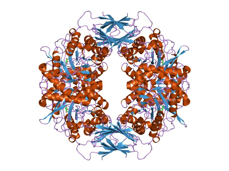 Cartoon representation of the molecular structure of protein registered with 1uhv code.